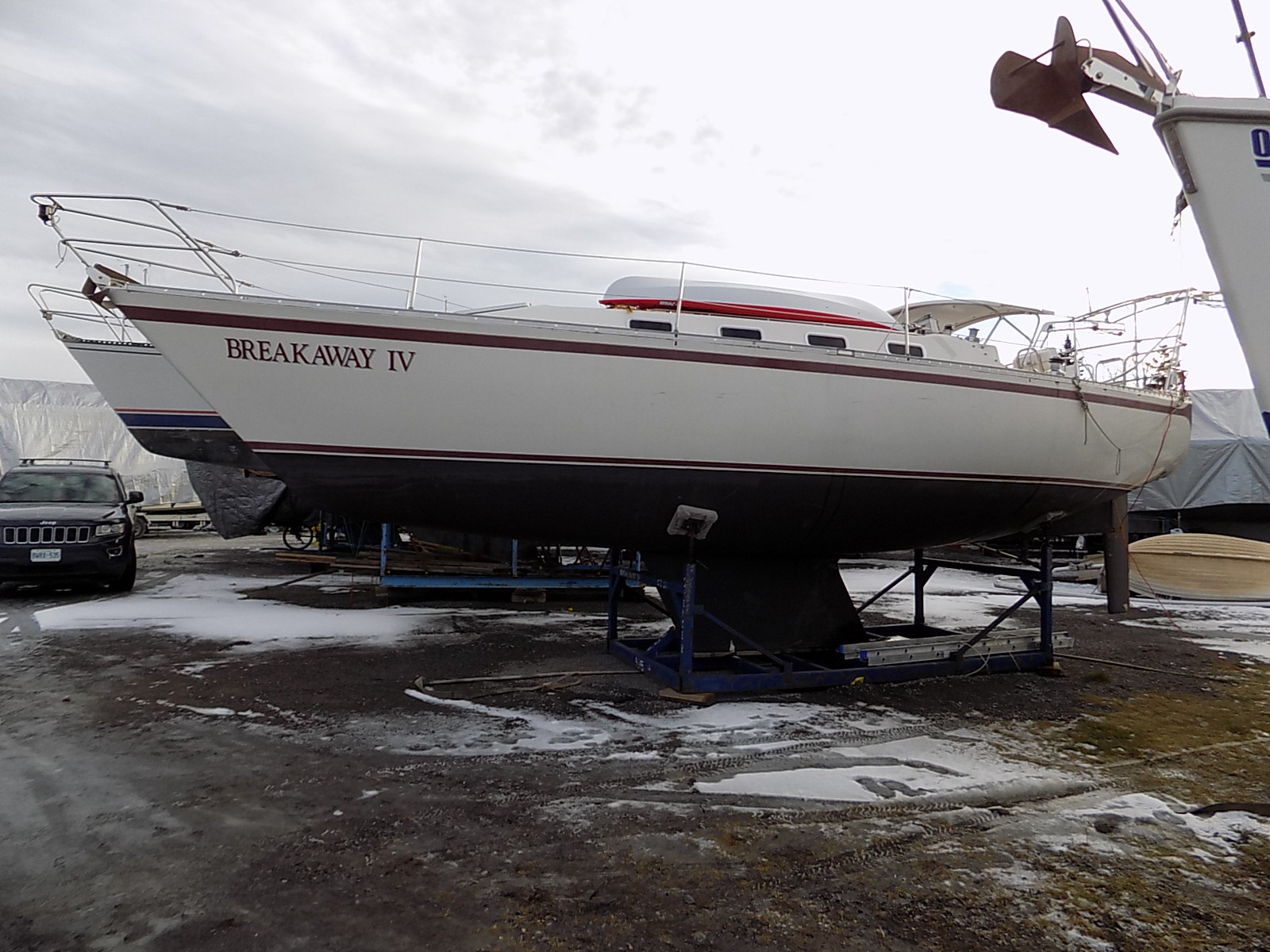 A CS 36 sailboat named Breakaway IV, on its cradle for winter storage, showing the keel and rudder arrangement.